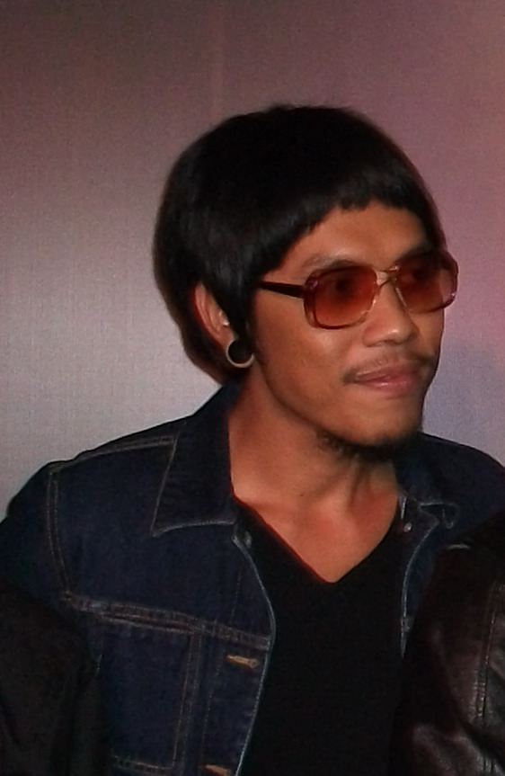 Jui Juis at MTV 8th anniversary